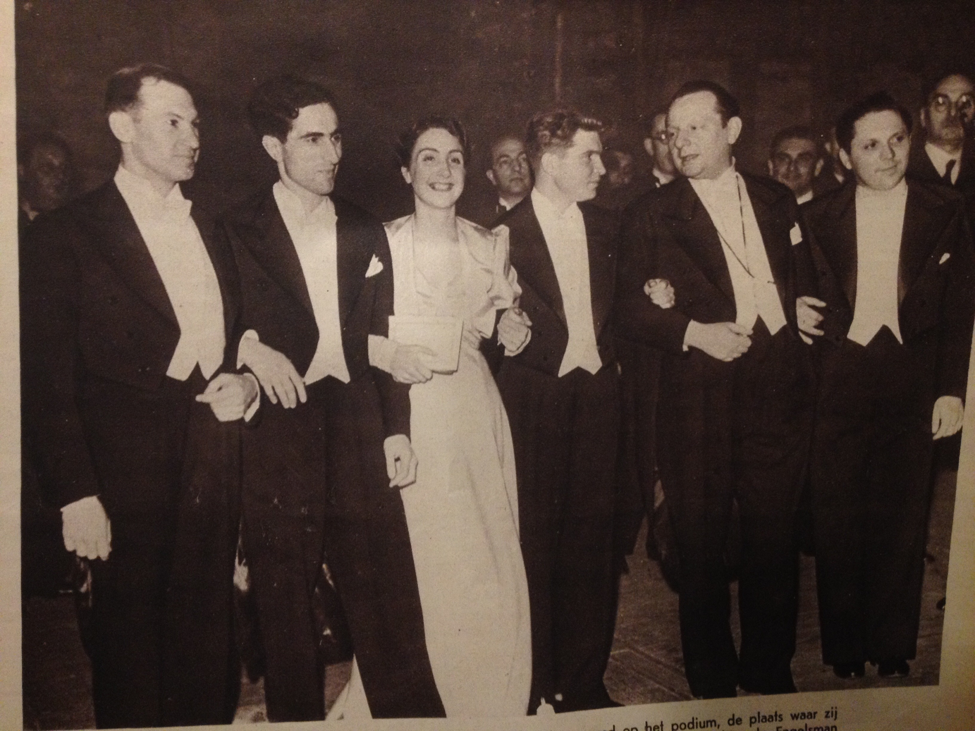 Left to right: Dossor, Jacob Flier,Mary Johnstone, Emile Guilels, André, Dumortier.